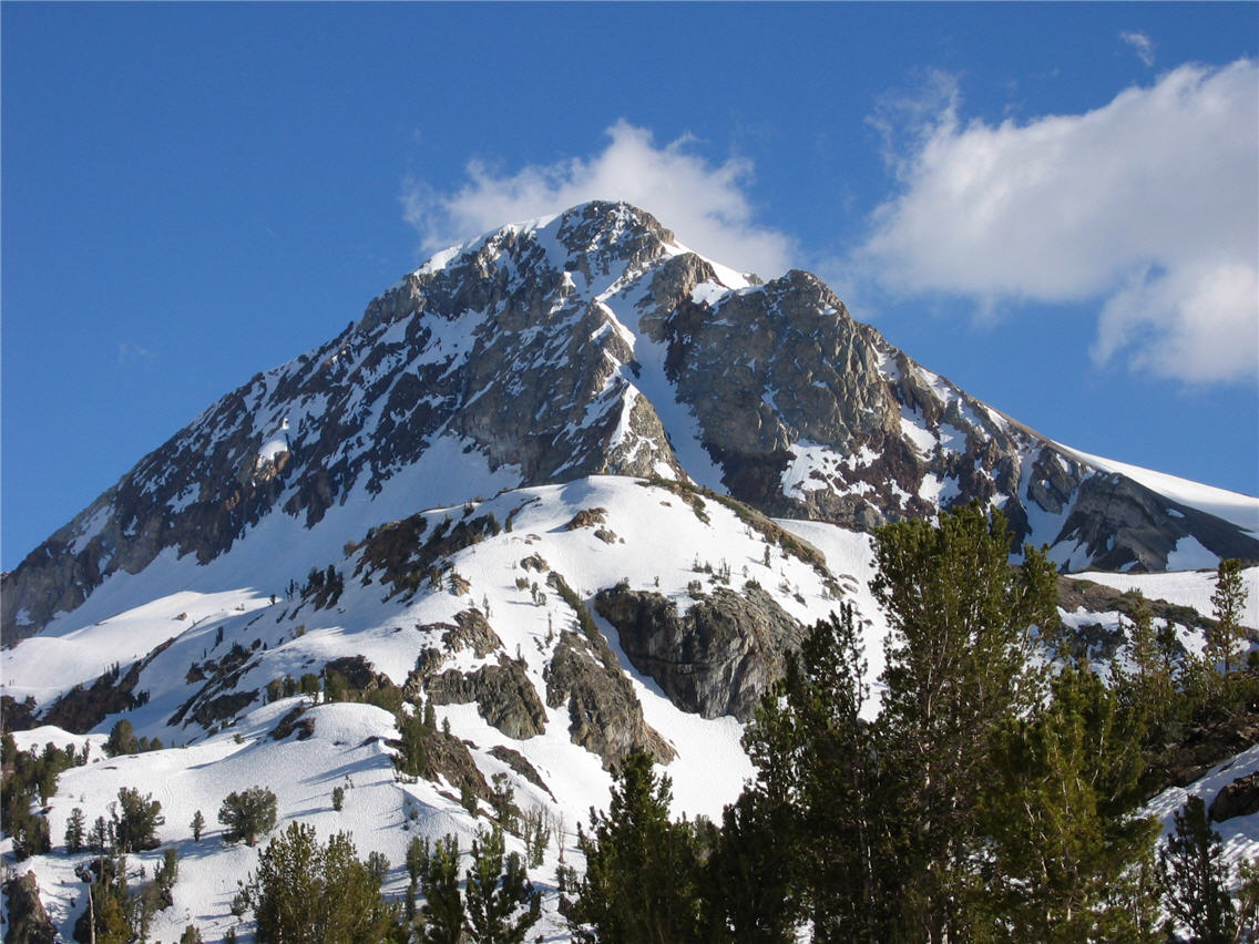 Picture of Red Slate Mountain taken from the meadow.